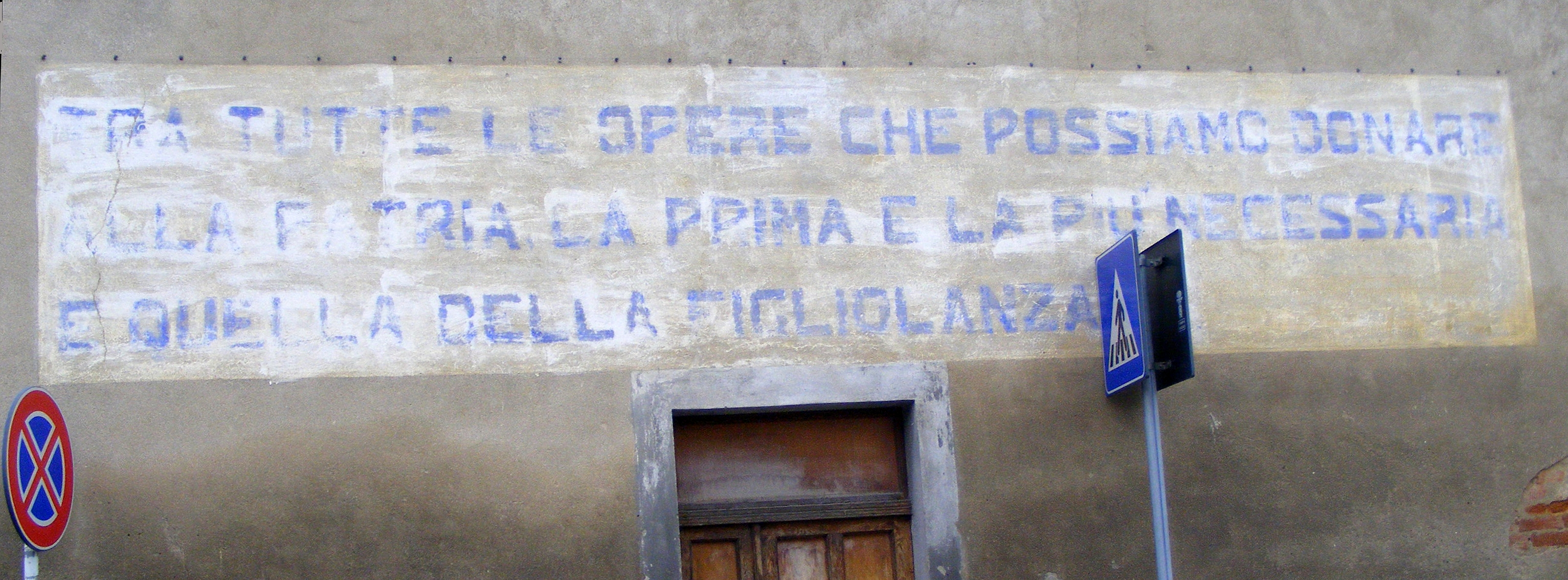 Viguzzolo (AL, Italy): fascist propaganda inscription